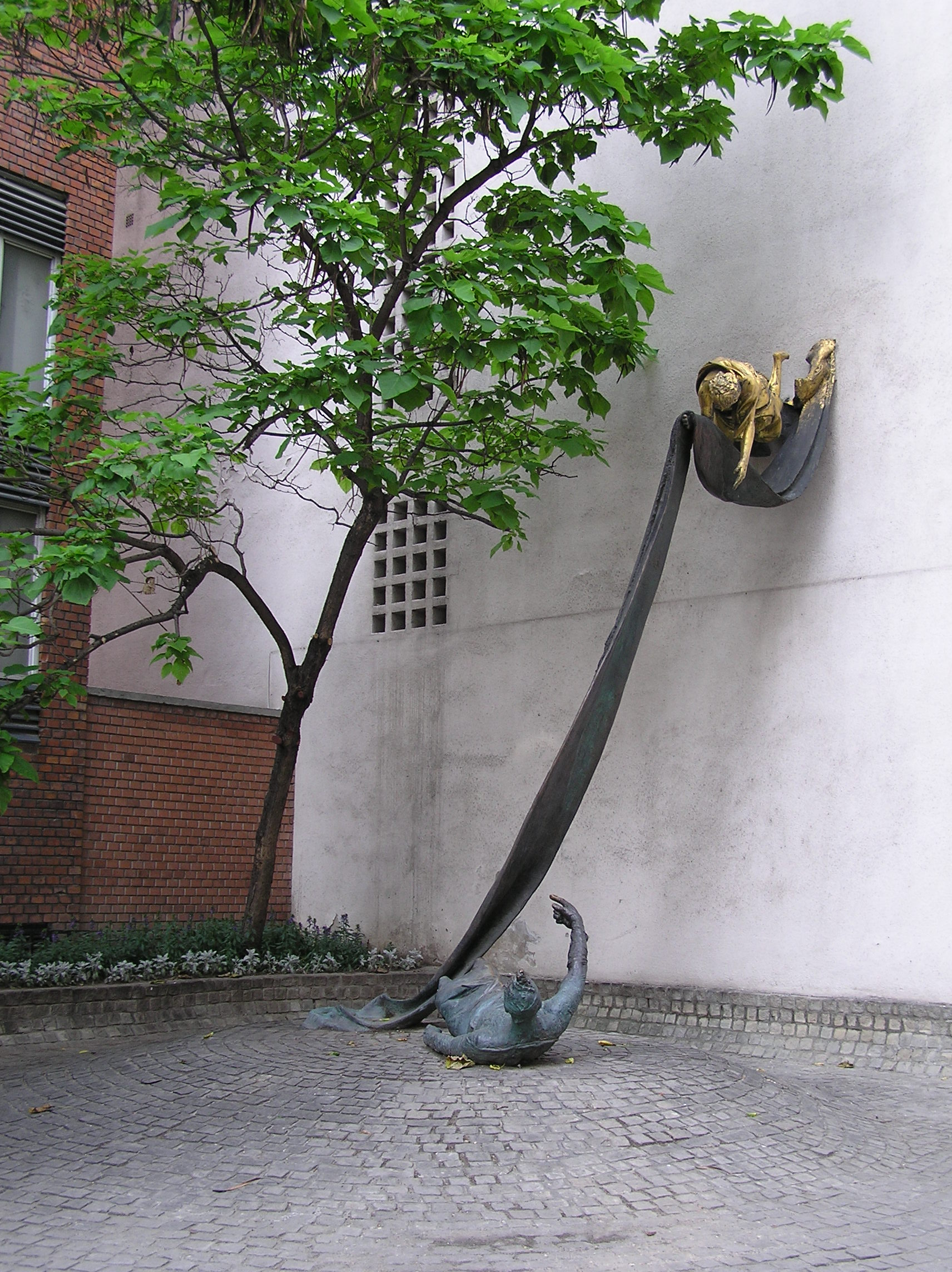 Memorial dedicated to Carl Lutz, Righteous among the nations (Budapest)